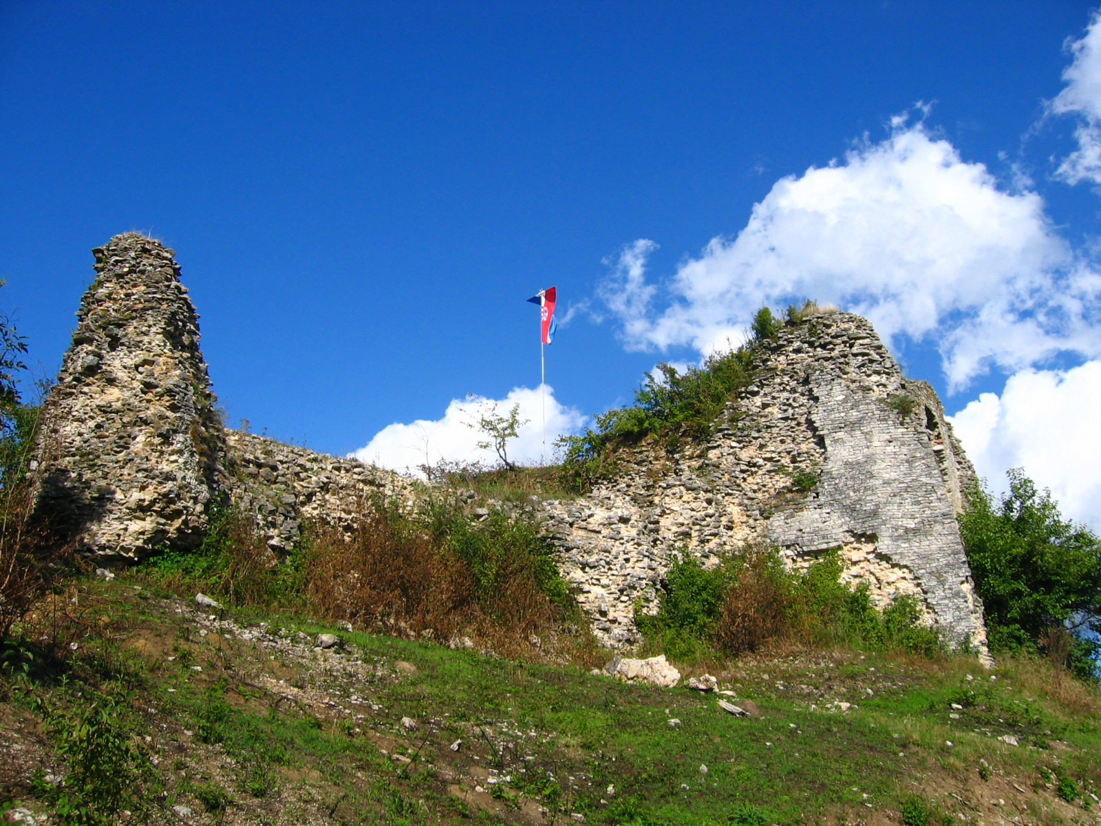 Cetin castle near Cetingrad, Croatia, view upon arrival on the castle hill